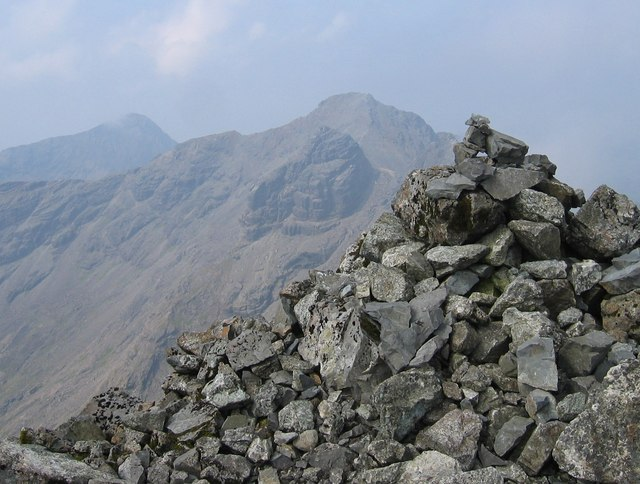 Sgurr nan Gillean. Looking west over the summit cairn towards Bruach na Frithe. The hill in the distant left is Sgurr Thuilm. (Am Basteir is hidden behind the cairn)